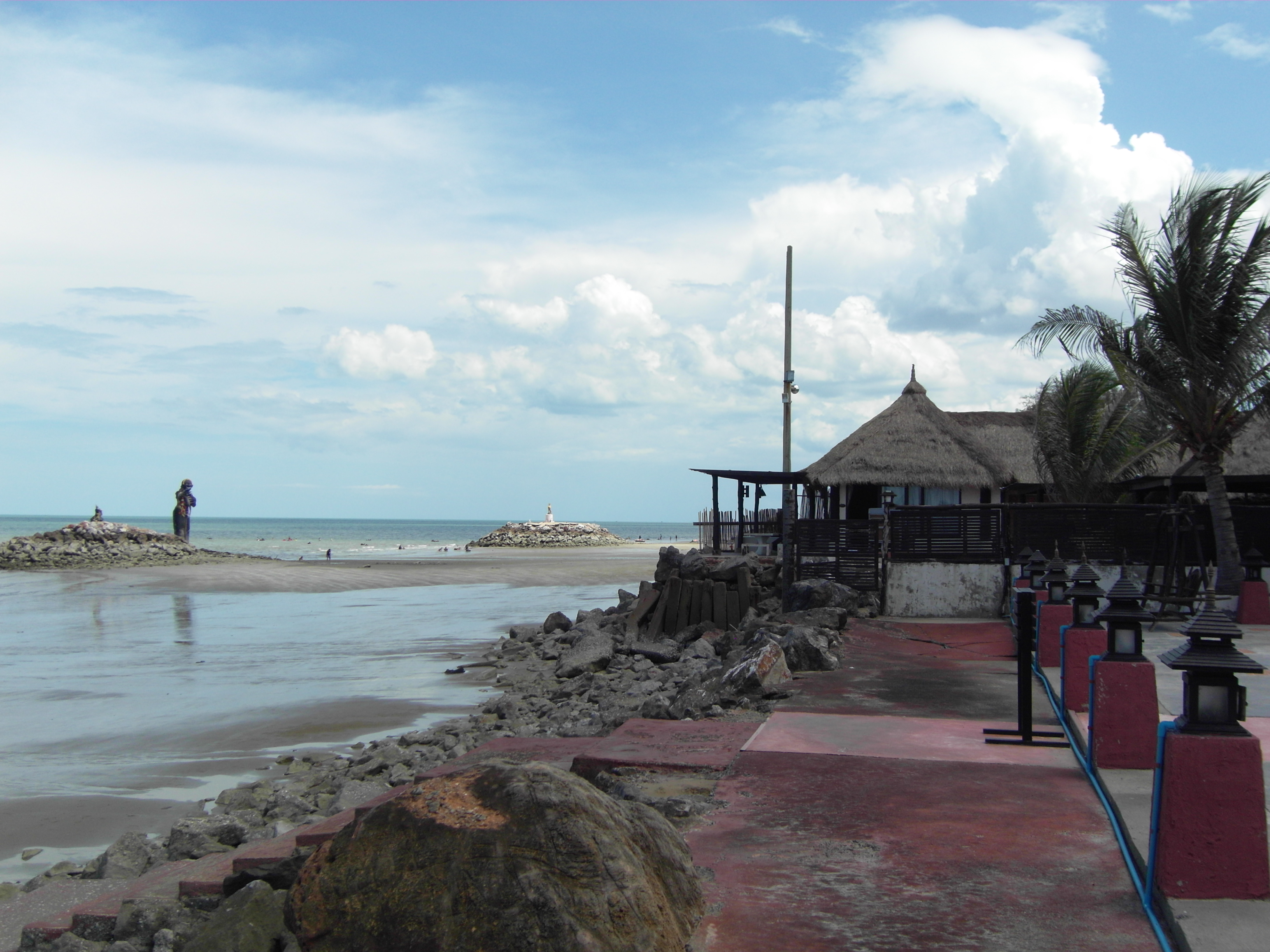 Unnamed Road, Tambon Puek tian, Amphoe Tha Yang, Chang Wat Phetchaburi 76130, Thailand